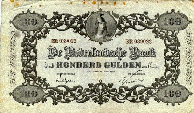 Hundred guilder banknote from 1921